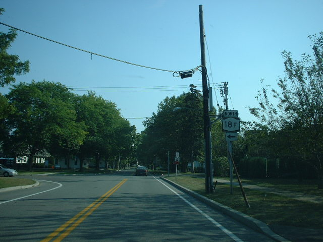 Looking south at the junction of Main and Jackson streets in the village of Youngstown. New York State Route 18F northbound follows Jackson Street to the left while NY 18F southbound follows Main Street into the background.